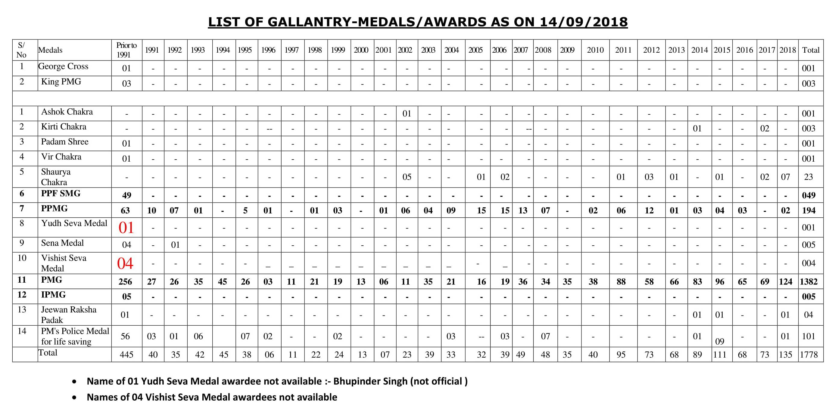 List of medal awardee as on 14/09/2018